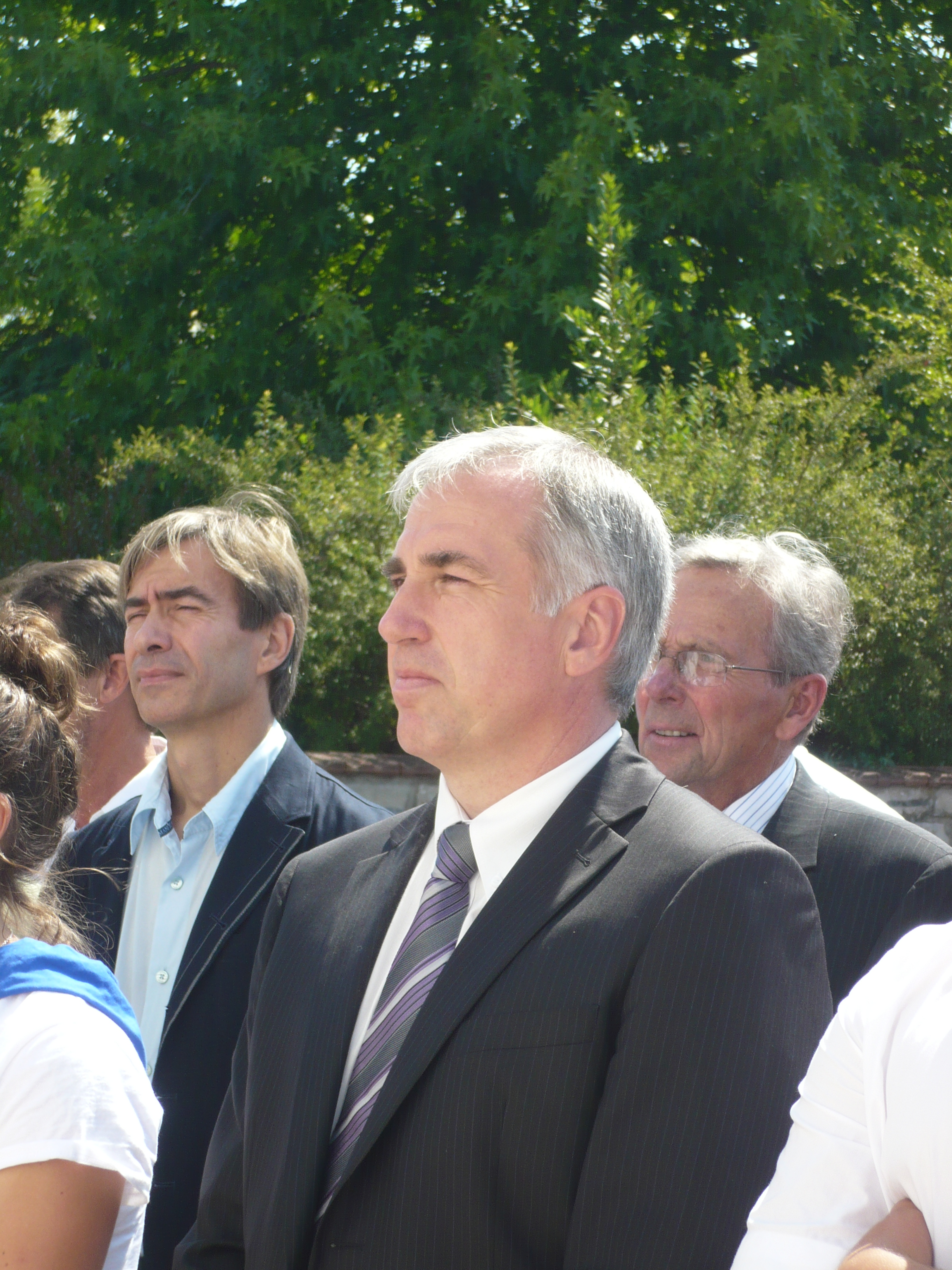 Alain Iriart mayor of Hiriburu (fr Saint-Pierre-d'Irube) at the local festival.